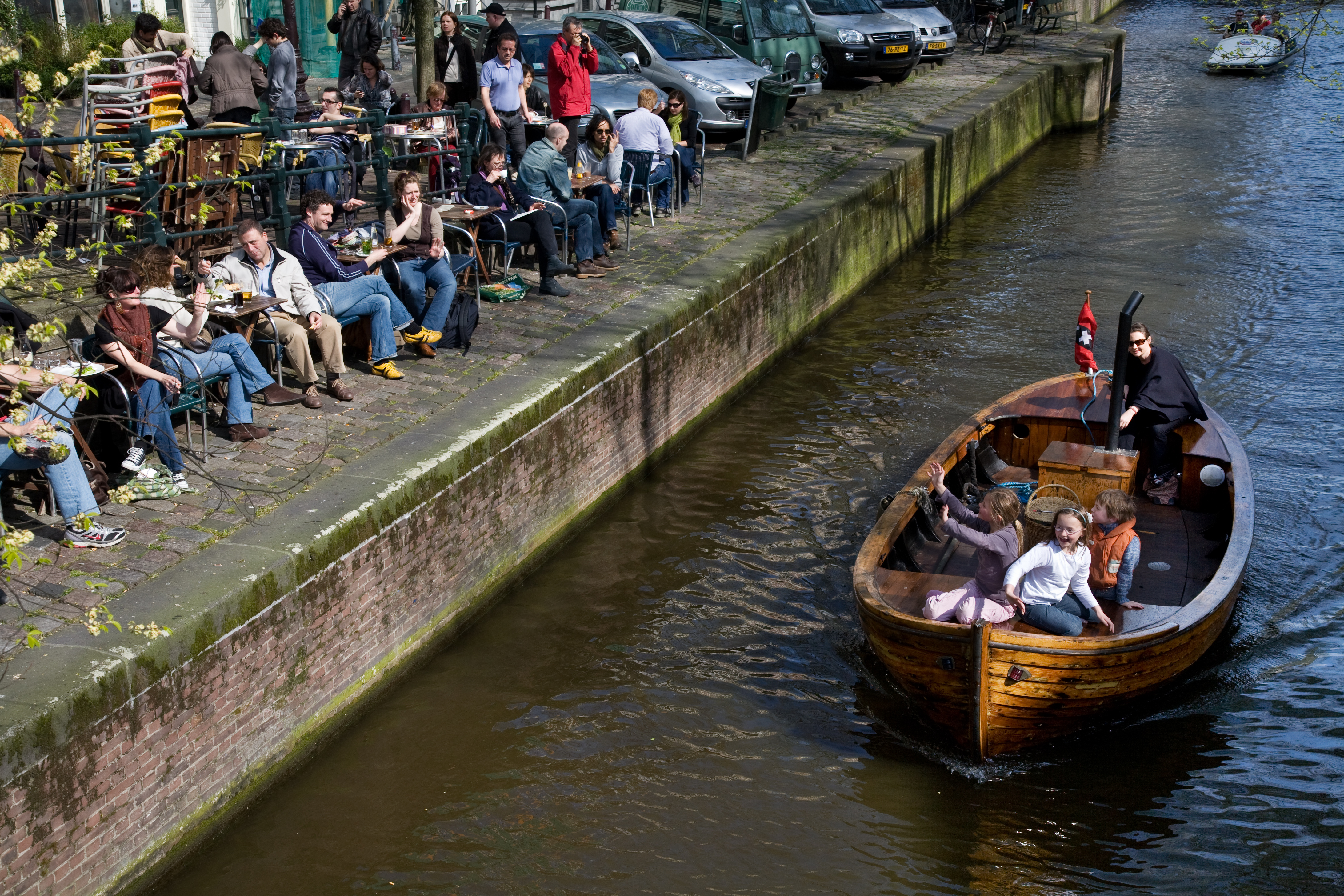 A family boat ride on a sunny sunday in the Herengracht. Amsterdam, The Netherlands